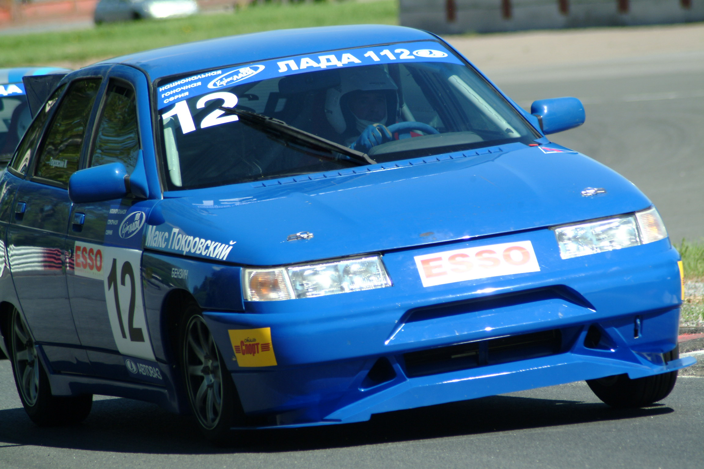 Max's name is written on the car